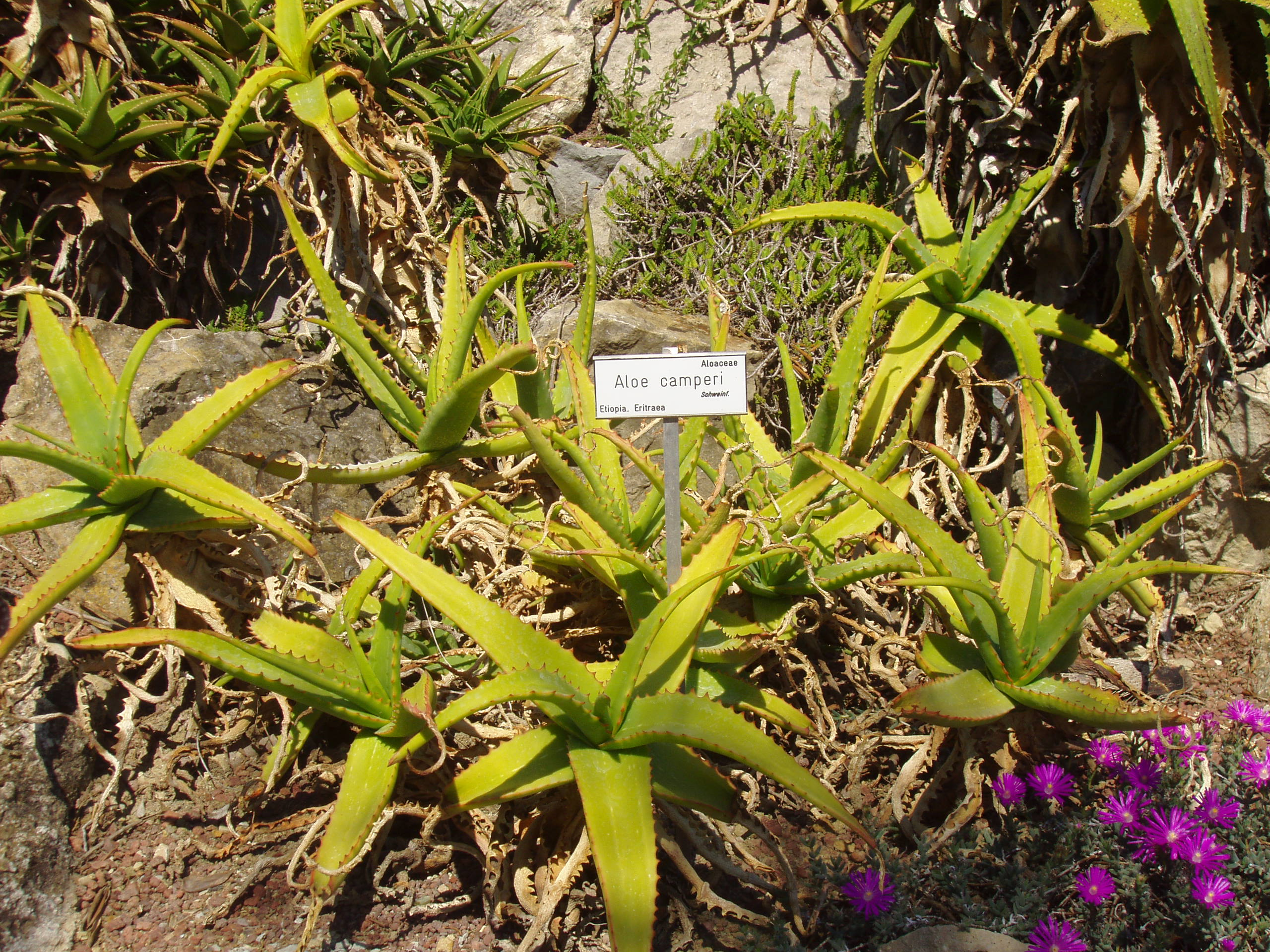 Aloe camperi, growing in the Villa Hanbury botanical garden, Ventimiglia, Italy.